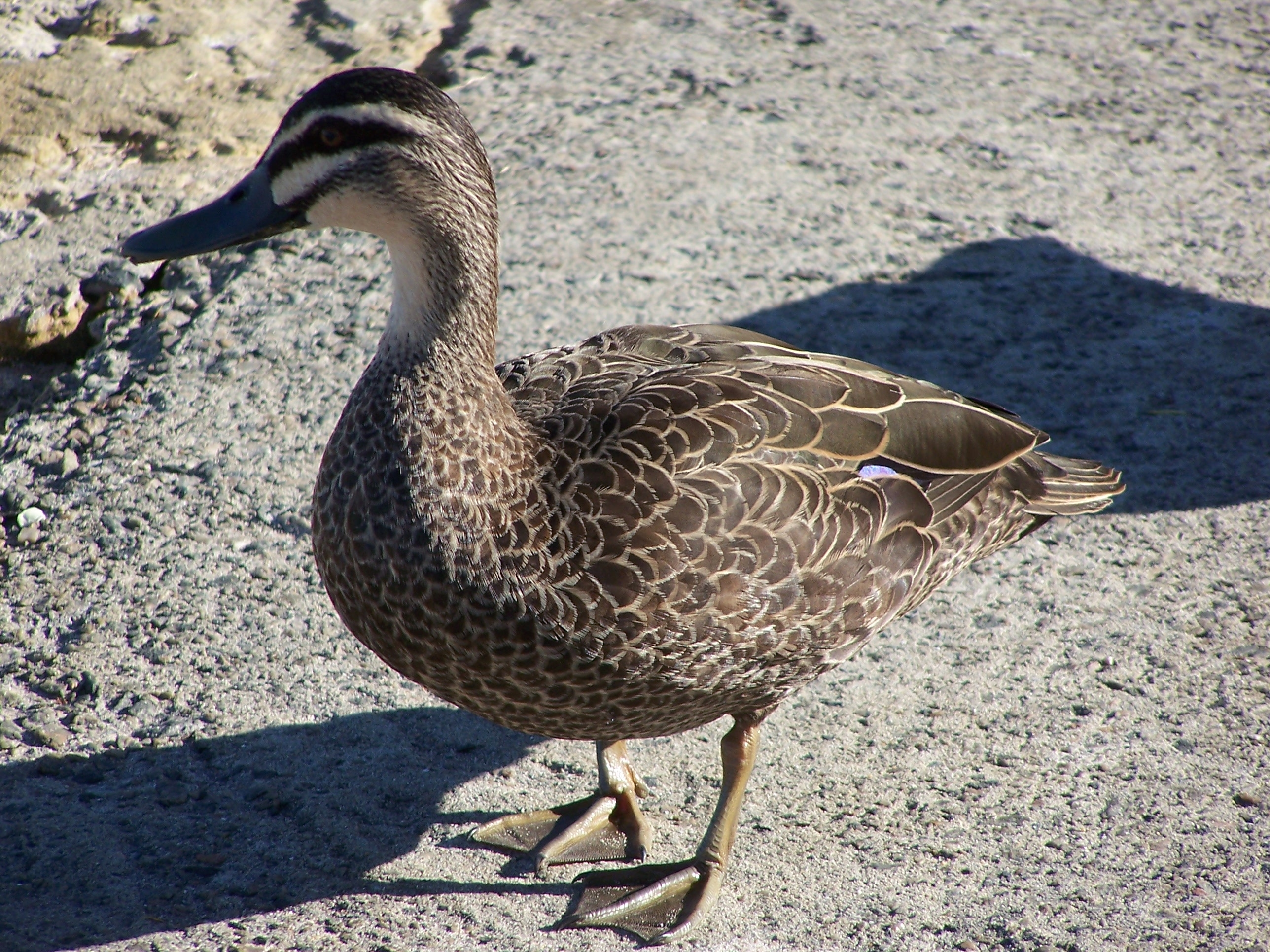 Pacific Black Duck, Anas superciliosa, at Bibra Lake in the Beeliar Regional Park, Perth Western Australia.